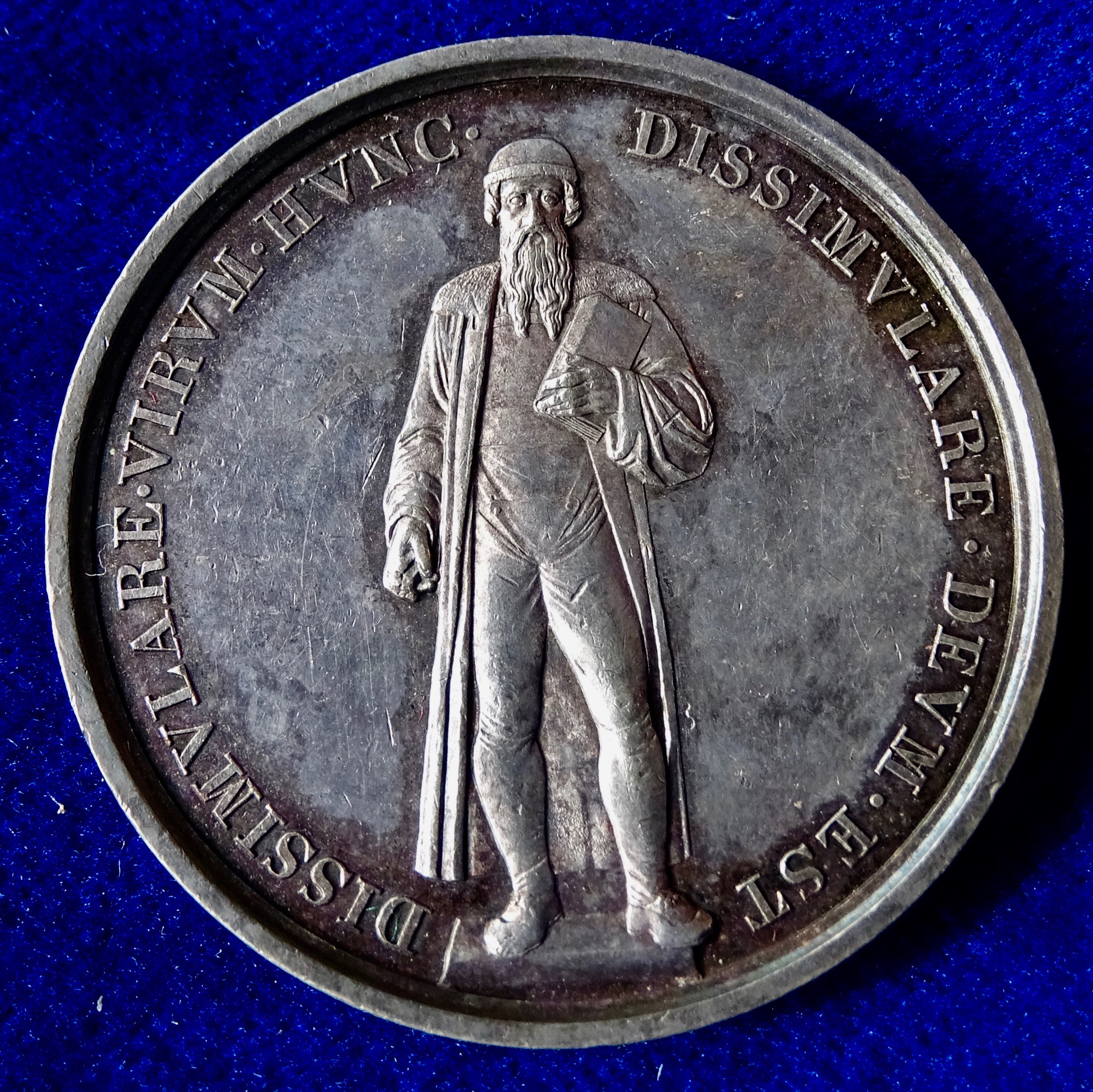 Mainz, Germany, Silver Medal 1840, Gutenberg Printing Press 400th Anniversary. Medallion d. = 37 mm. 17.47 g Ag. Johannes Gensfleisch zur Laden zum Gutenberg, c. 1400 Mainz, Electorate of Mainz in the Holy Roman Empire - 1468 Mainz, Germany. His introduction of mechanical movable type printing to Europe started the Printing Revolution and is regarded as a milestone of the second millennium, ushering in the modern period of human history. It played a key role in the development of the Renaissance, Reformation, the Age of Enlightenment, and the scientific revolution and laid the material basis for the modern knowledge-based economy and the spread of learning to the masses Around the Gutenberg monument in Mainz by Thorwaldsen: "DISSIMVLARE · VIRVM · HVNC · DISSIMVLARE · DEVM · EST"/ Around Gorgoneion on shield: "ARTE · SVA · LITERAS · AVXIT IN · MEMOR · SECVLAR · TYPOGRPHIAE · MDCCCXL". Slg Walther -; Wurzbach 3457 (Bronze); Forrer IV, p. 253 Medallists: I. (Johann) I. (Jakob) Neuss, 1770 Augsburg - 1848 Augsburg and Bertel Thorvaldsen, 1770 Copenhagen - 1844 Copemhagen Condition: EXTREMELY FINE, old patina.